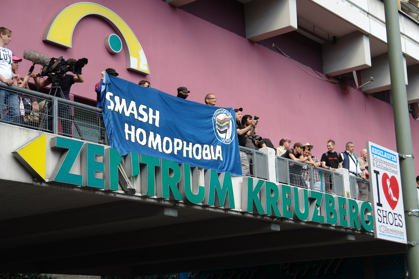 Alternative Pride March (Transgenialer CSD) in Berlin, 2010.